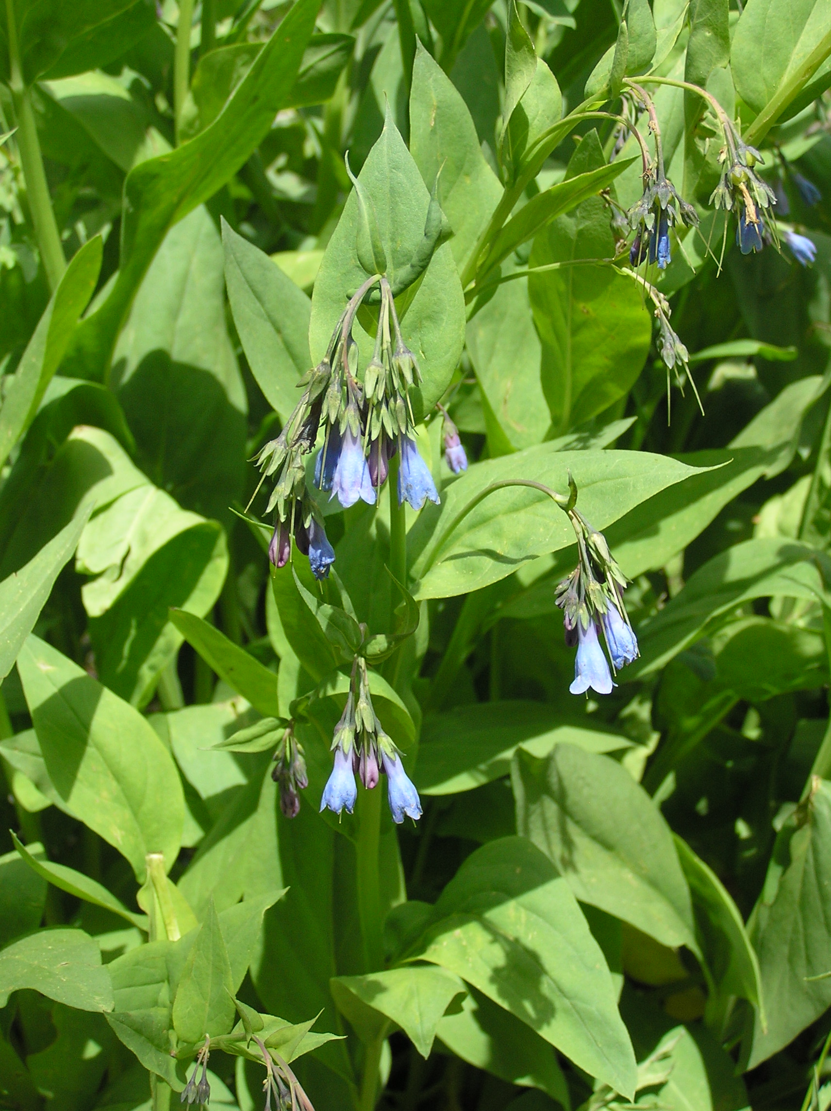 Streamside bluebells. Creeks and seeps, with alder and aspen, 4400-6700ft. Photo on Diamond Mt. [Photo Credit: Don Lepley]